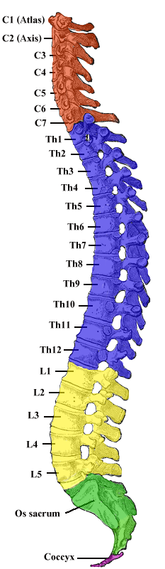 same as Image:Gray 111 - Vertebral column.png but coloured Cervical Spine Thoracic Spine Lumbar Spine Sacrum Coccyx